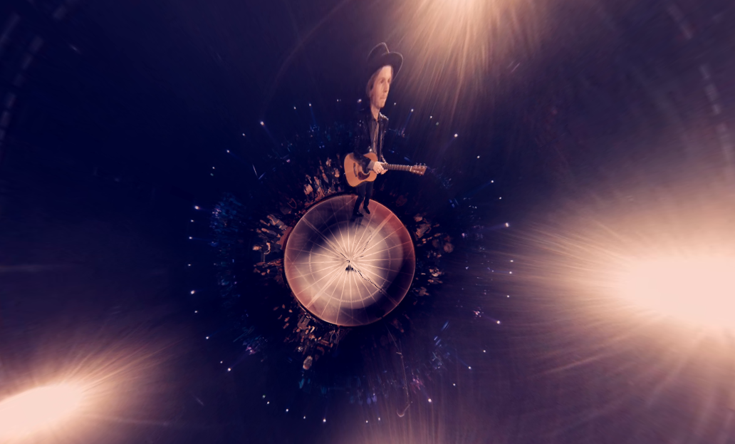 Still image of Beck - Hello, Again